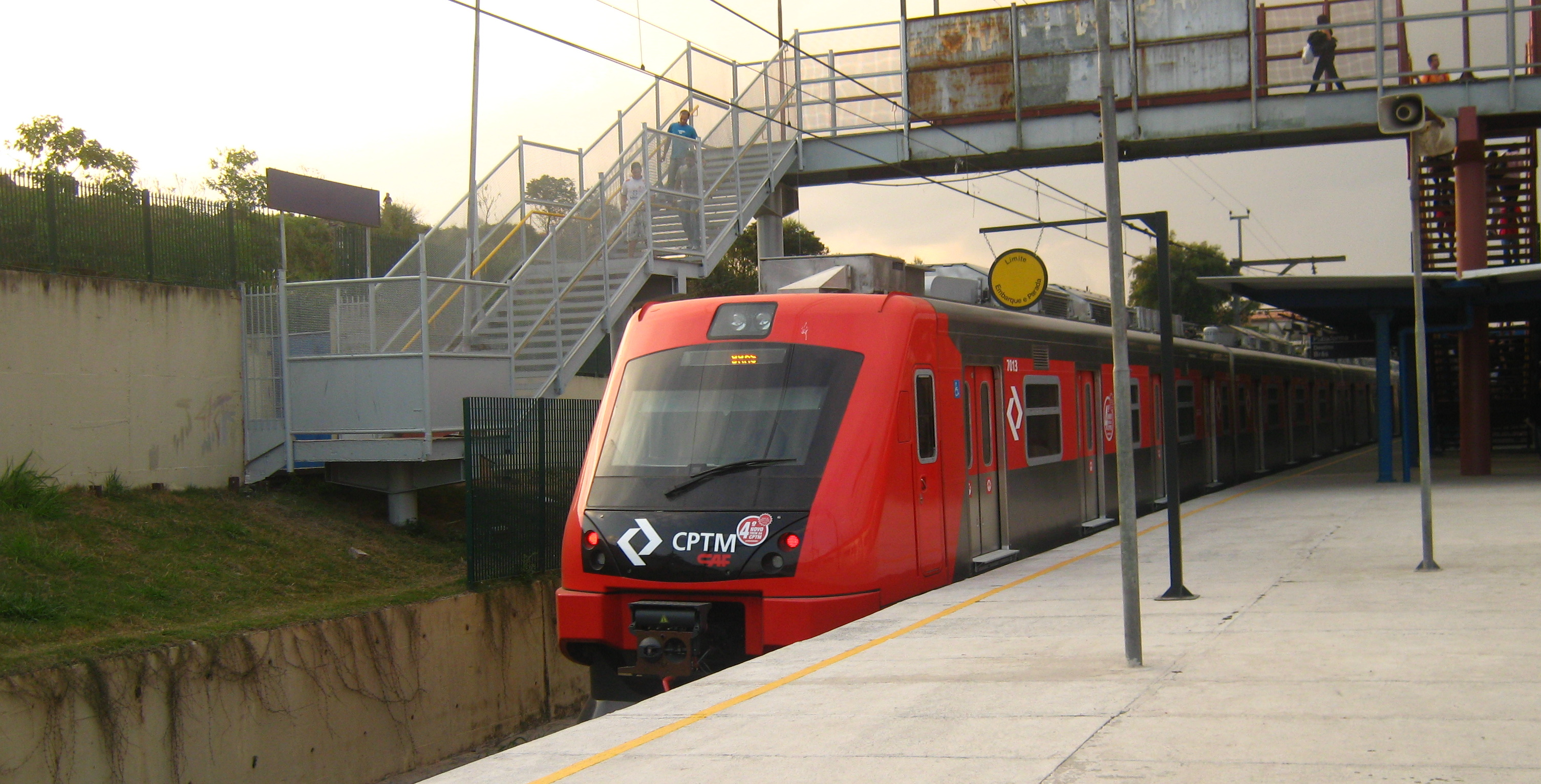 The 4th EMU of twenty ordered to CPTM. The 7000 Series. The manufacturer is CAF Brasil.